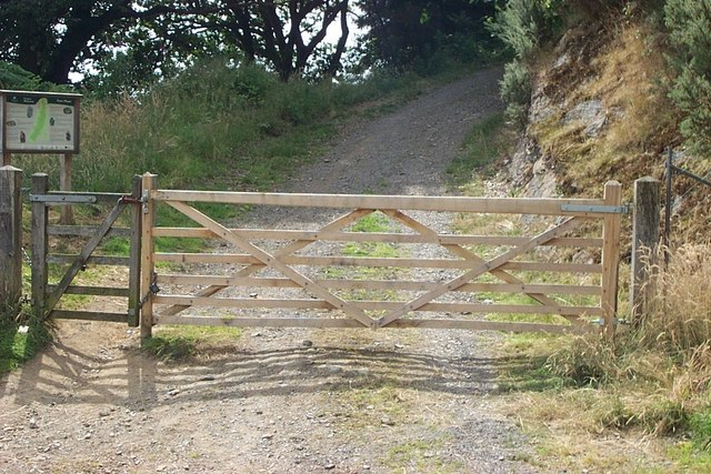 Gate Entrance to Parc Mawr. This is the gate entrance to The Woodland Trust Parc Mawr at SH 76071 74417.